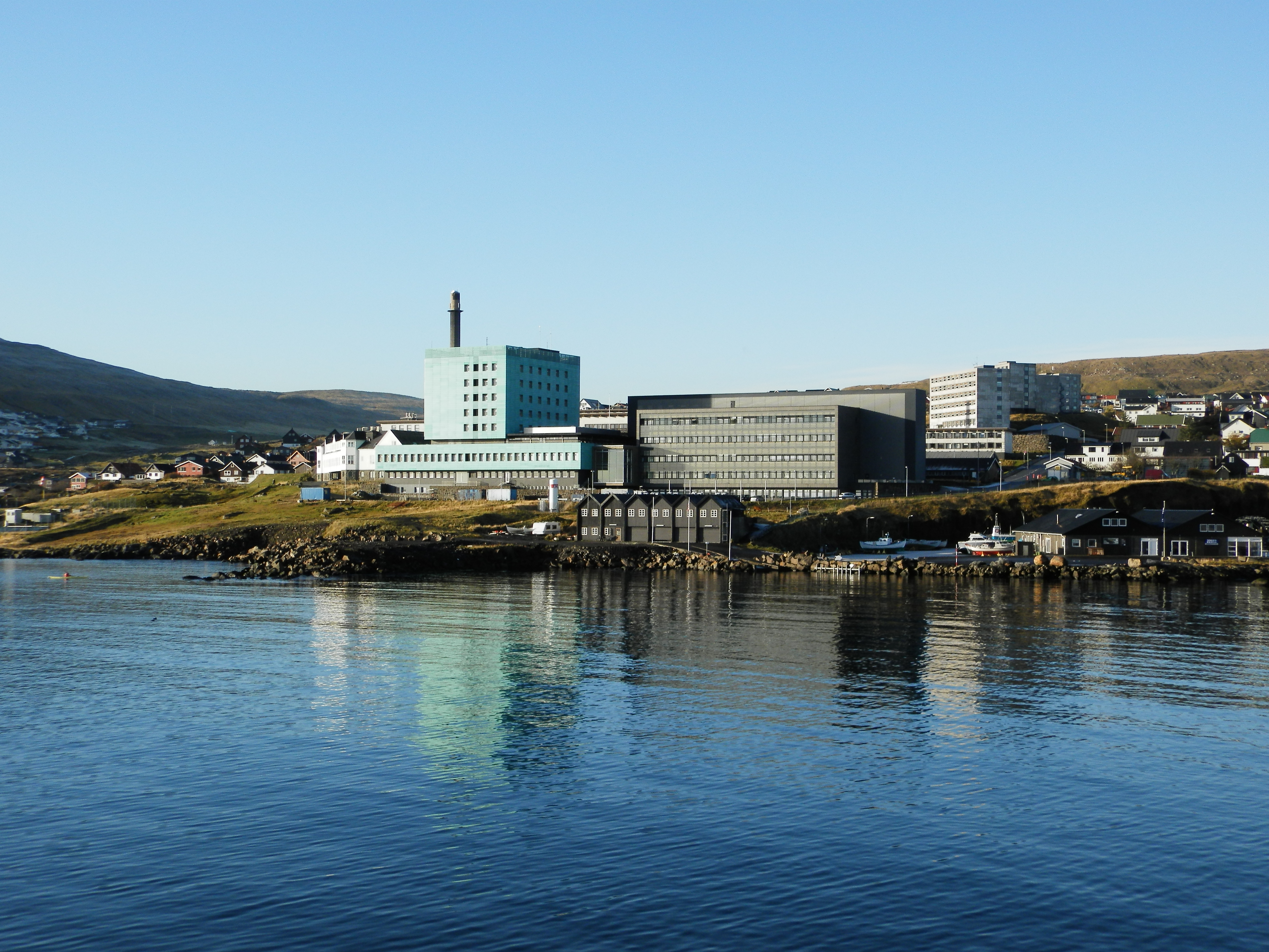 Landssjúkrahúsið is the National Hospital of the Faroe Islands, located in Tórshavn, the capital.This photo was taken from the ferry Smyril M/S on route from Suduroy to Tórshavn. The oldest building of the hospital is the white building to the left, built in 1924, at that time it was called "Dronning Alexandrines Hospial", named after a Danish queen. Before that there was the " Færø Amts Hospital", built in 1829. The green building was built later, in the 1960s and the dark gray building to the right was built in the 2000s, opened in 2004. Føroyskt: Landssjúkrahúsið í Havn.